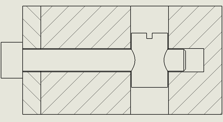 Cutaway view of a cross dowel in use